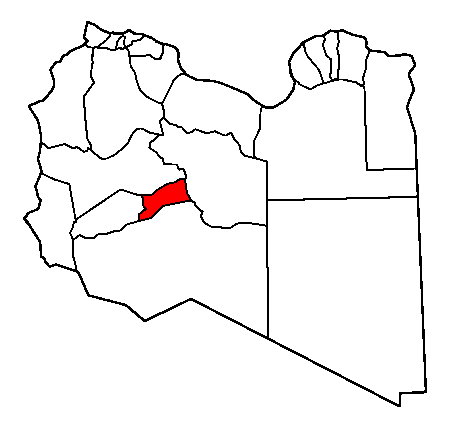 map of Libya with Sabha district highlighted